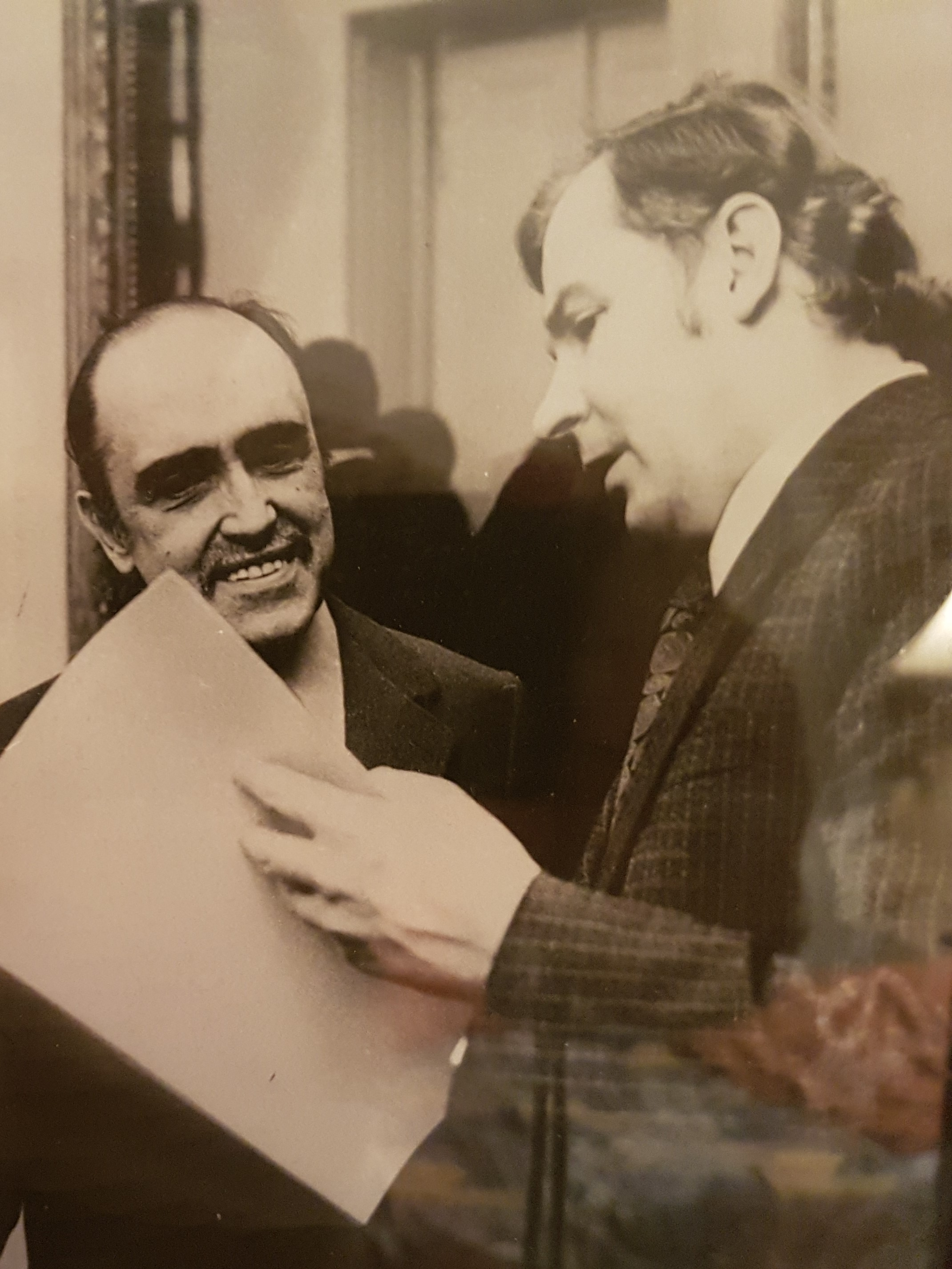 Oscar Niemeyer in Brazil with Polish architect Jerzy Swiech